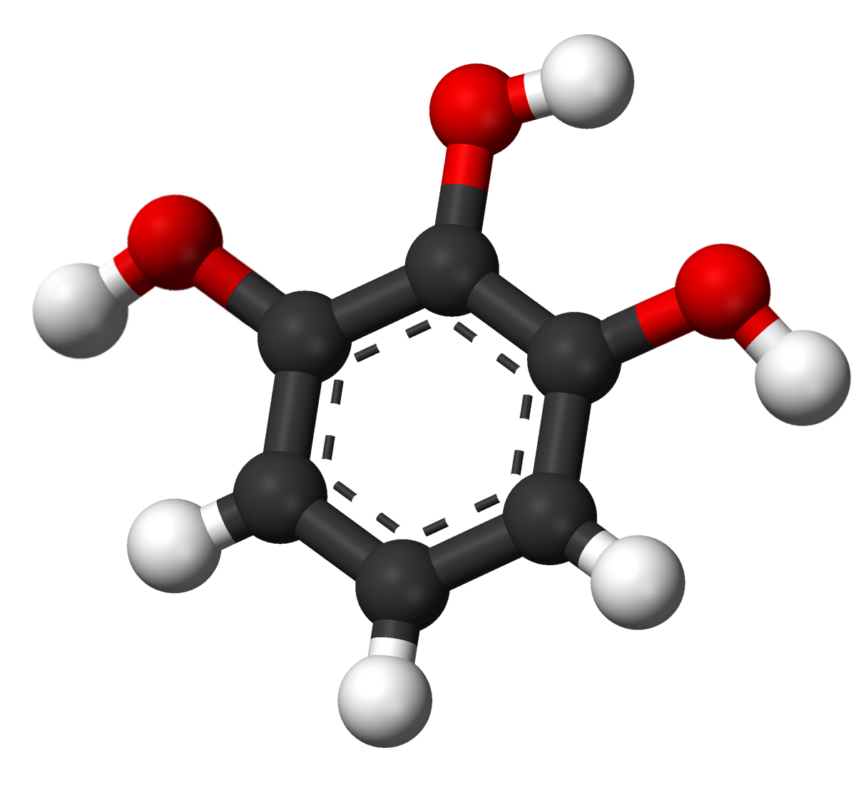 Pyrogallol molecule model